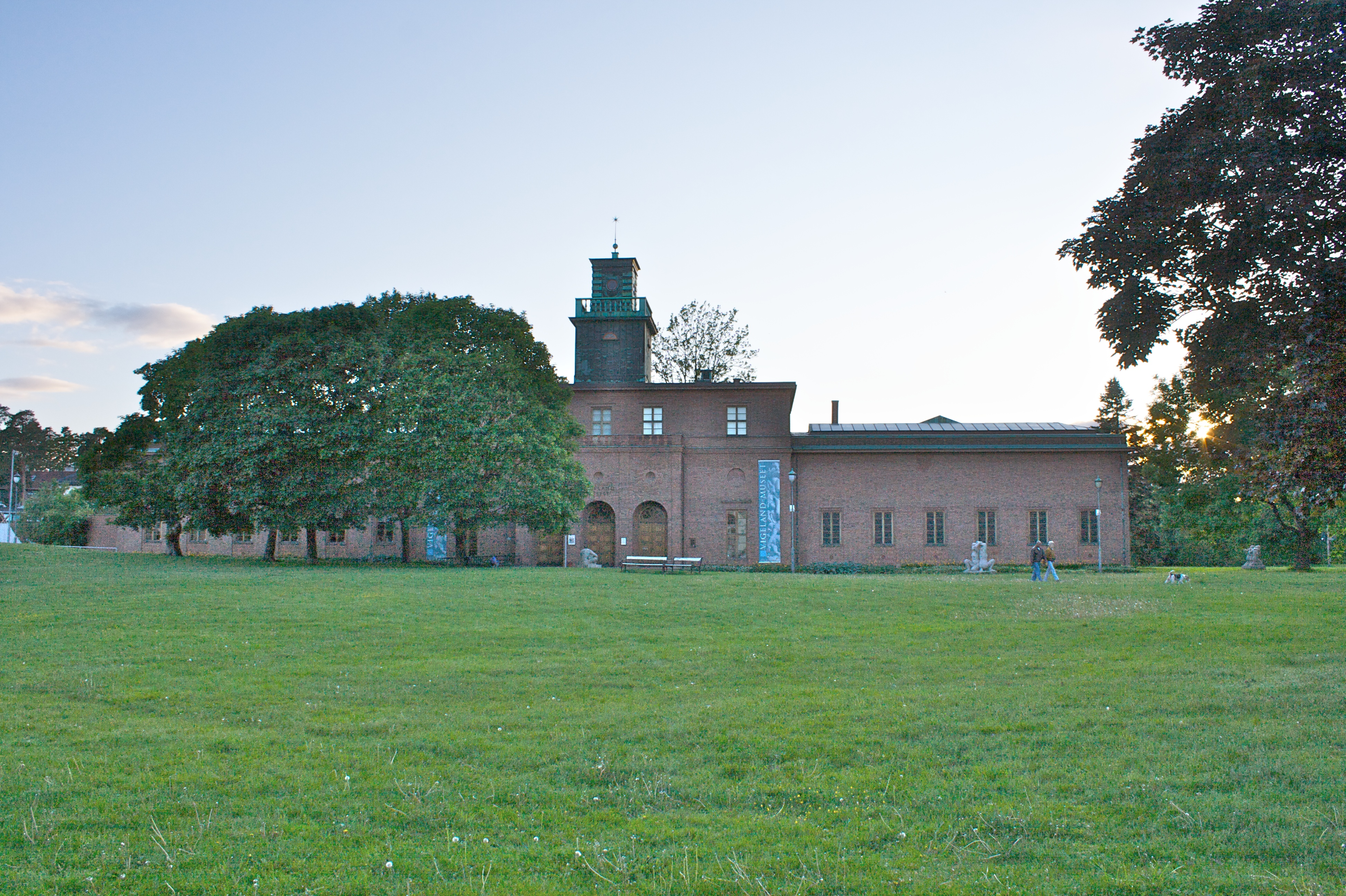 The Vigeland Museum. Frogner, Oslo, Norway.